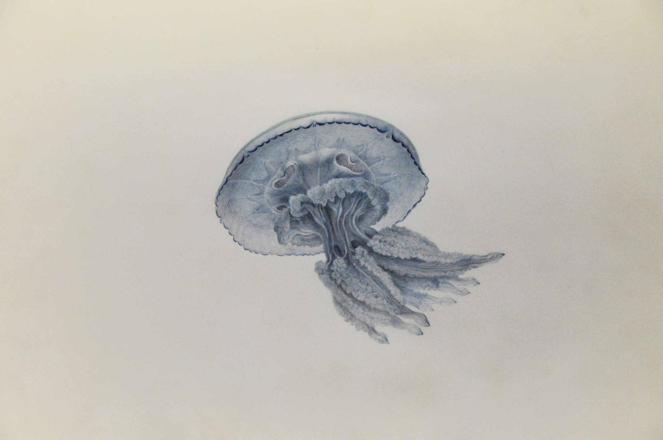 Museum, Le Havre (France, Normandy)